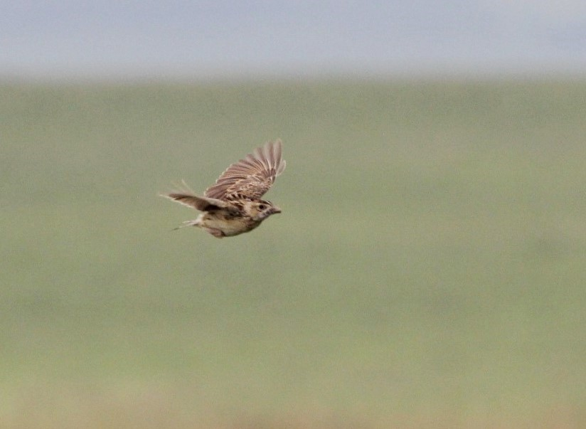 Rudd's lark at Wakkerstroom, Mpumalanga, South Africa